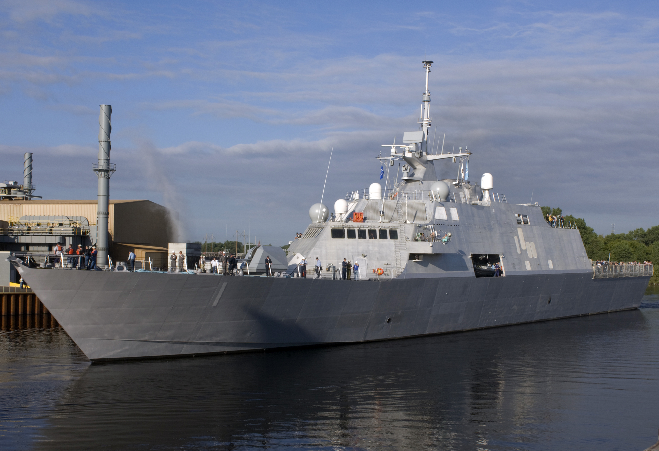 080819-N-7090S-050 MARINETTE, Wis. The littoral combat ship USS Freedom (LCS 1), the first ship in the Navy's new Littoral Combat Ship class, prepares to go to sea to begin acceptance trials. The Navy's Board of Inspection and Survey team will conduct the acceptance trials in Lake Michigan.